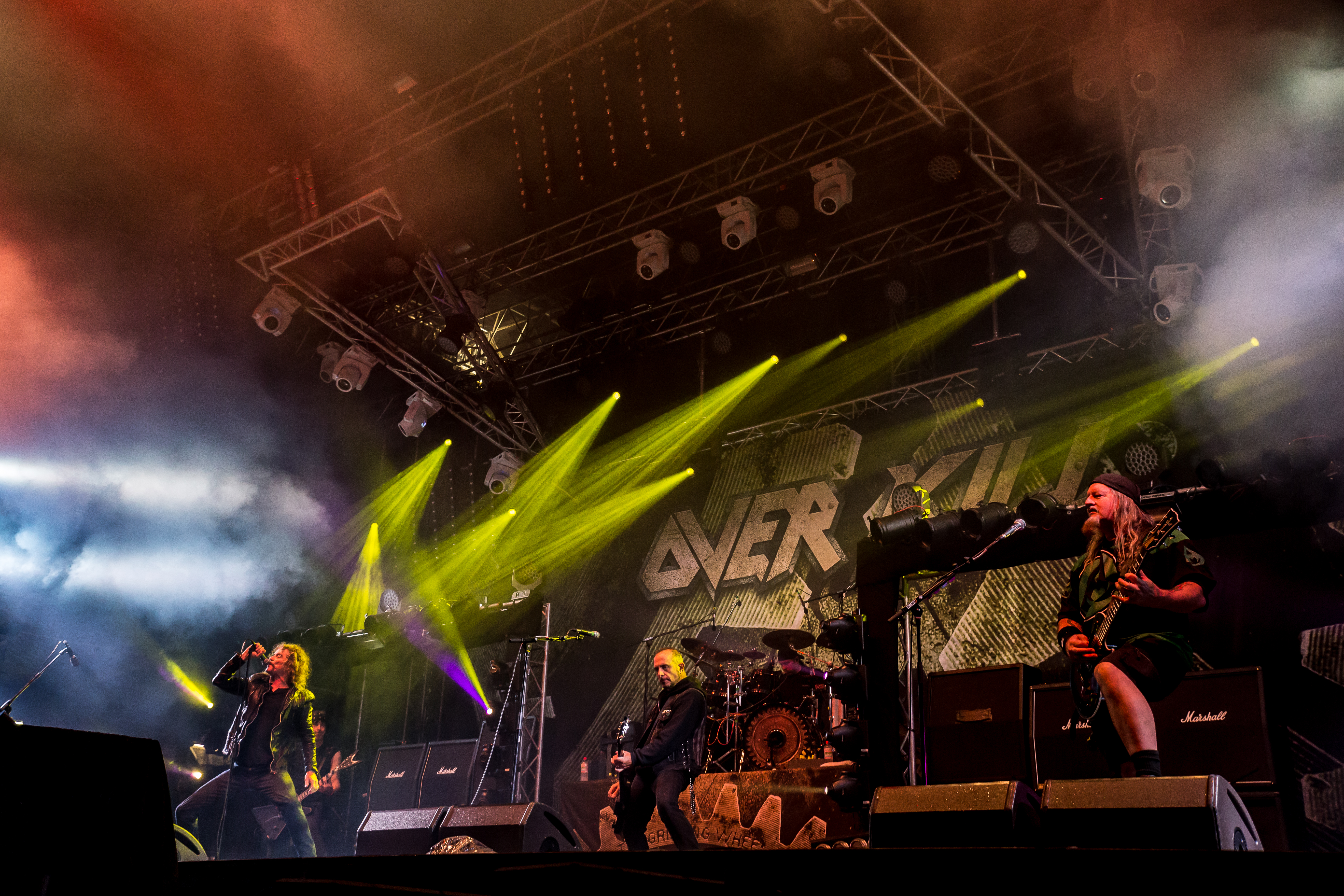 The American thrash metal band Overkill at the Party.San Metal Open Air 2016 in Obermehler-Schlotheim/Germany.